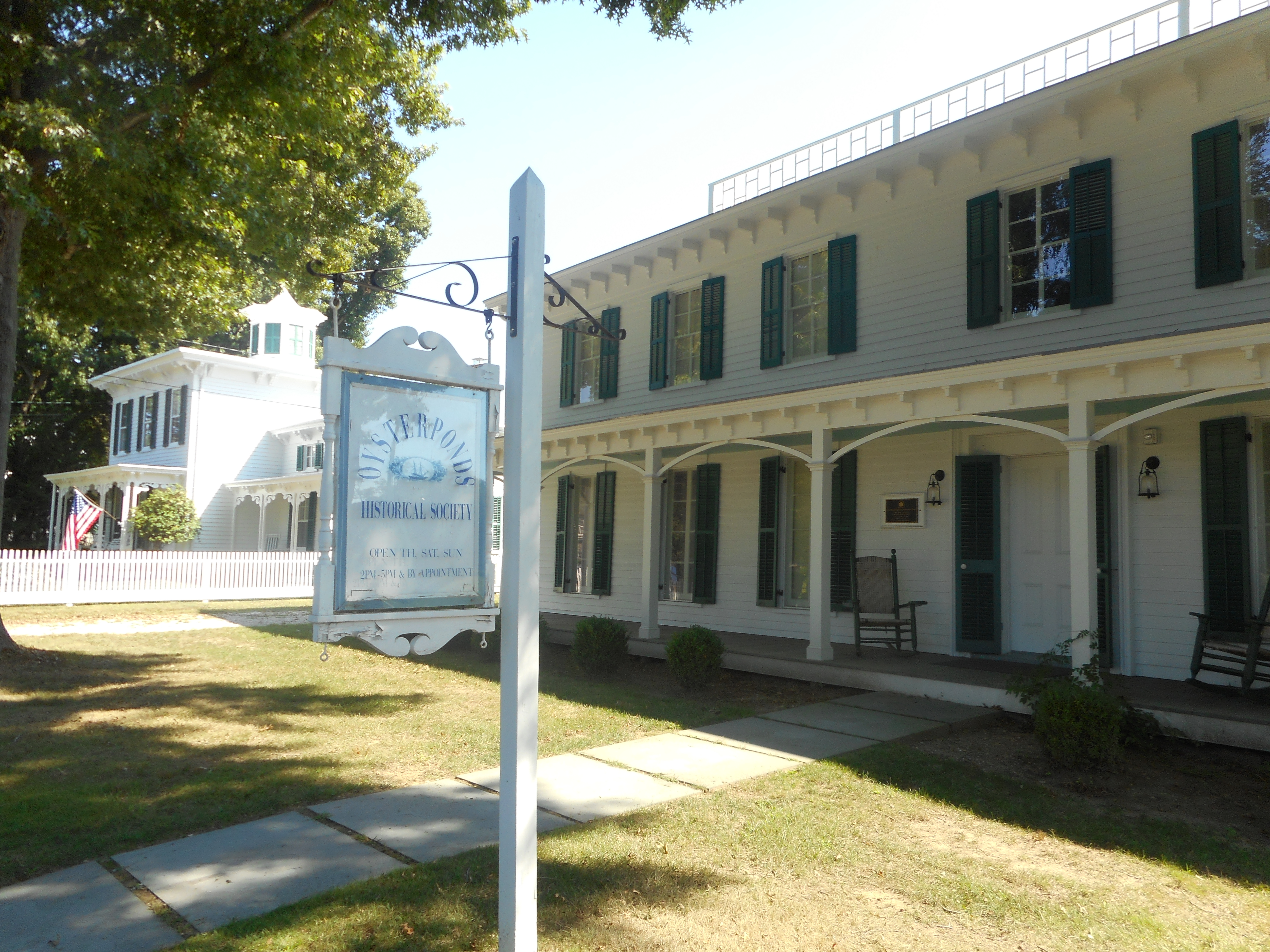 Sign along the northbound side of Village Lane for the Oysterponds Historical Society, within the Orient Historic District, in Orient, New York.